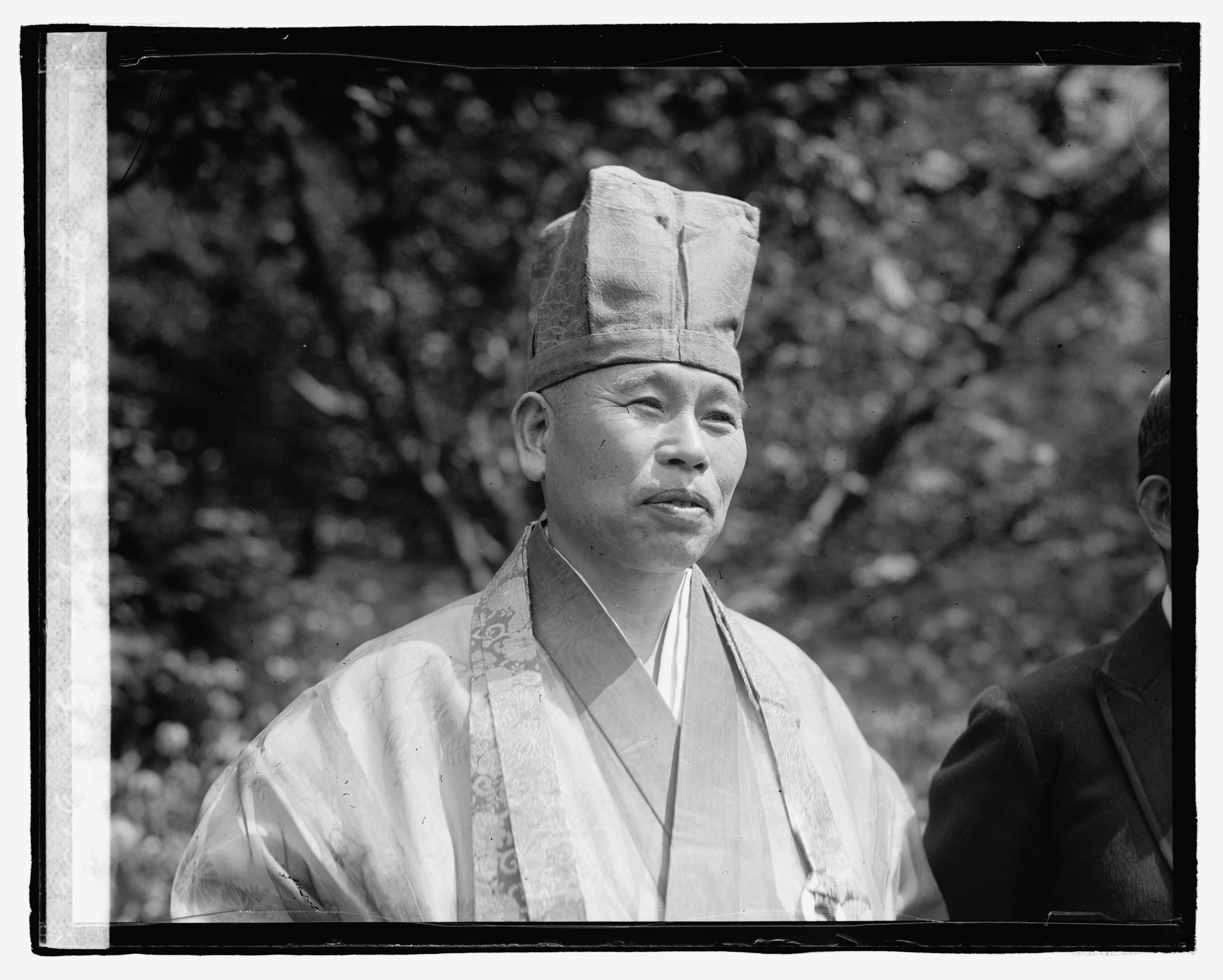 Title: Gempo Yamamoto, [5/4/23] Abstract/medium: National Photo Company Collection (Library of Congress) Physical description: 1 negative